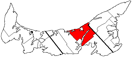 Adapted from existing Prince Edward Island election results maps to depict a specific electoral district.